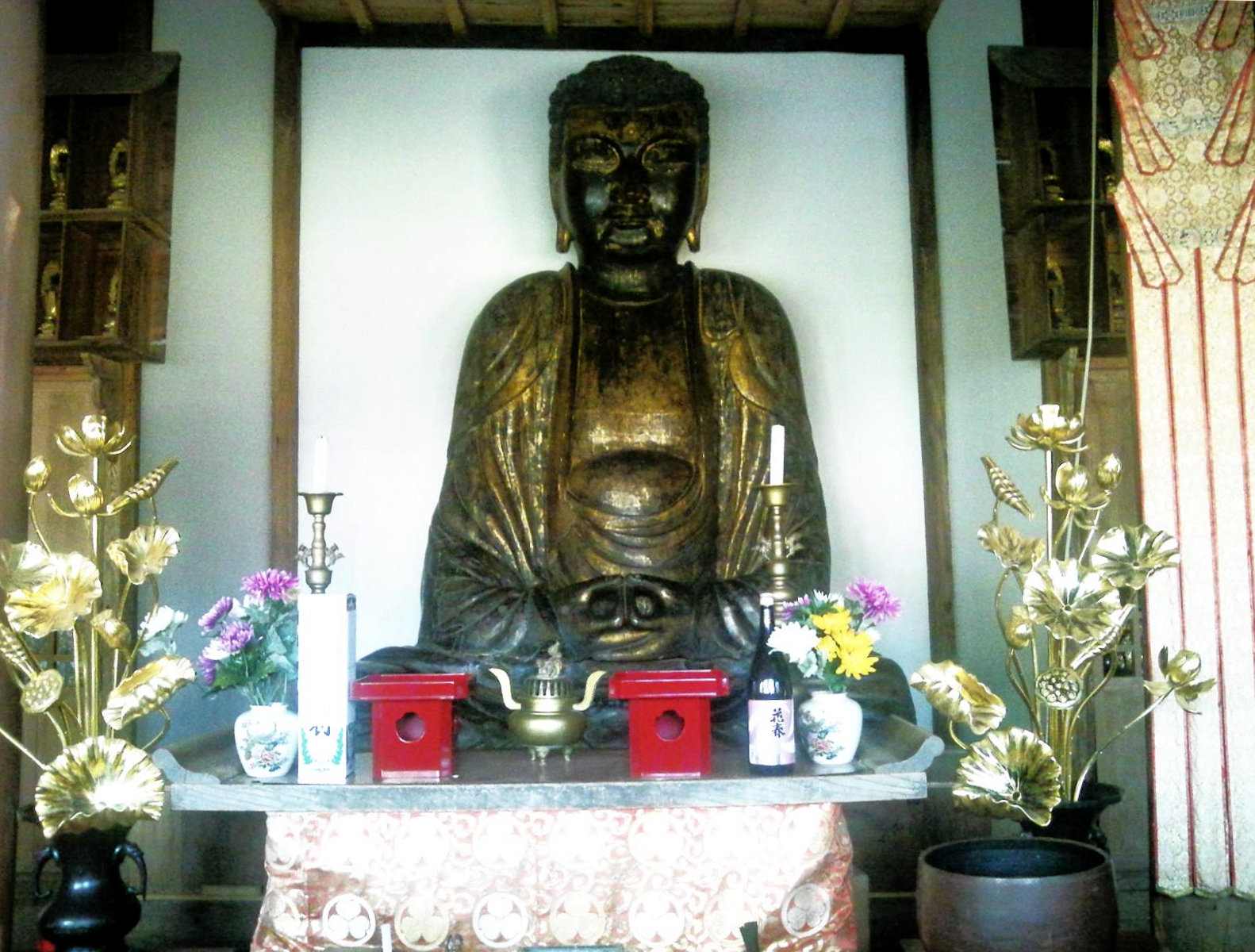 郡山市湖南町の東光寺にある中地大仏